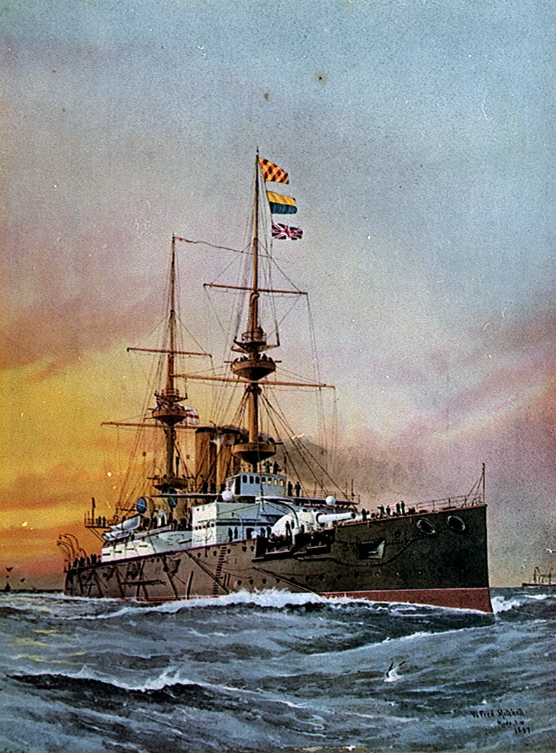 Present - 1897. Her Majesty's Ship Prince George. First Class Battleship Print